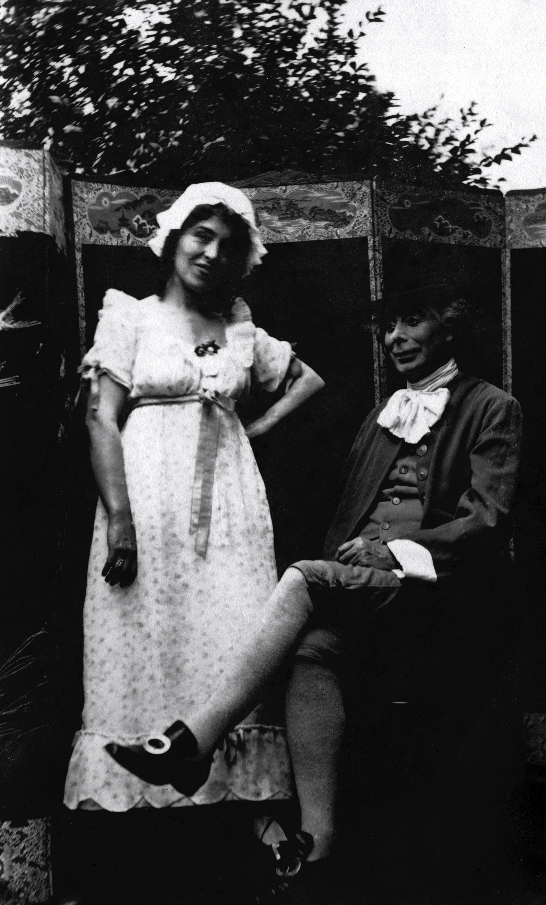 English baritone Arthur Foxton Ferguson, in costume with an unidentified woman c. 1910. The performance and work is also unidentified.